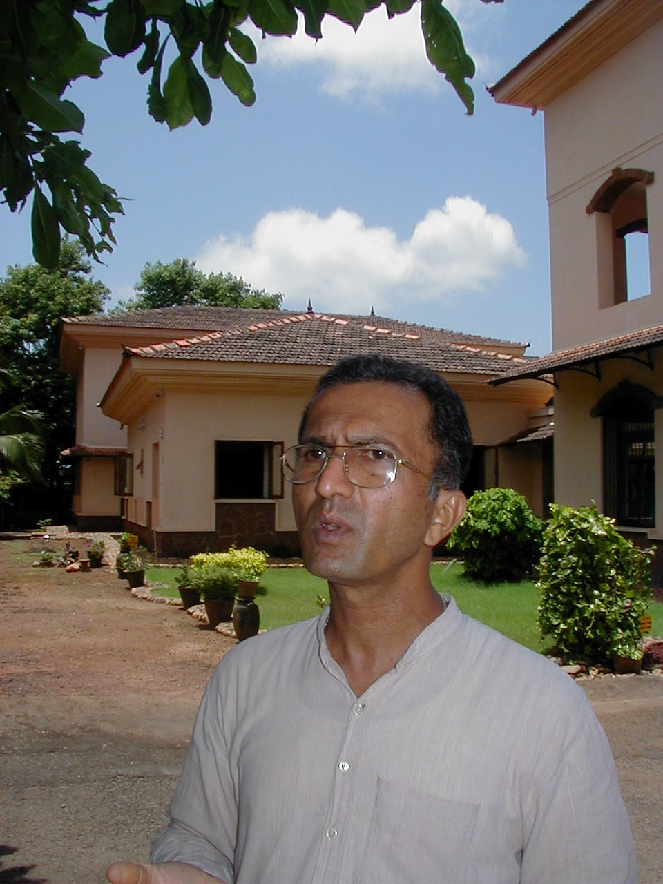 Dr Pratap Naik sj, Jesuit and Konkani researcher, in Goa, India. Director of the TSKK-Goa. Photo by Frederick "FN" Noronha